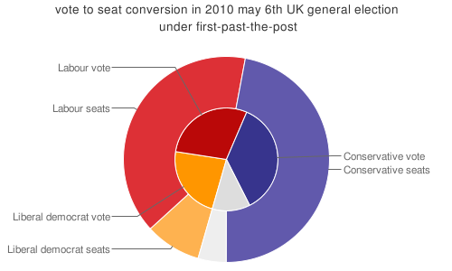 (Chart of) Vote to seat conversion in the 2010 UK General Election under First-Past-the-Post